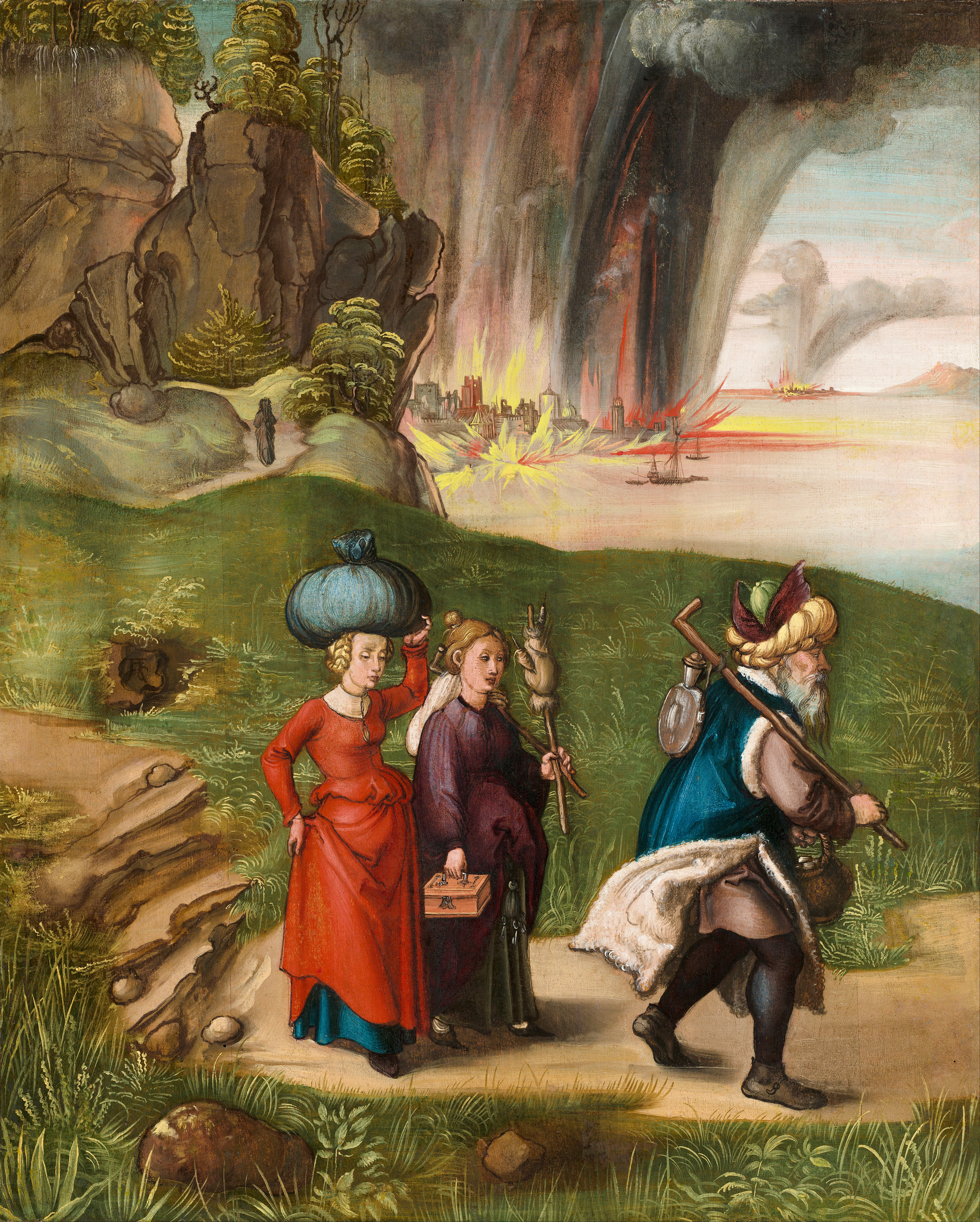 This scene is painted on the reverse side of Dürer's Madonna and Child